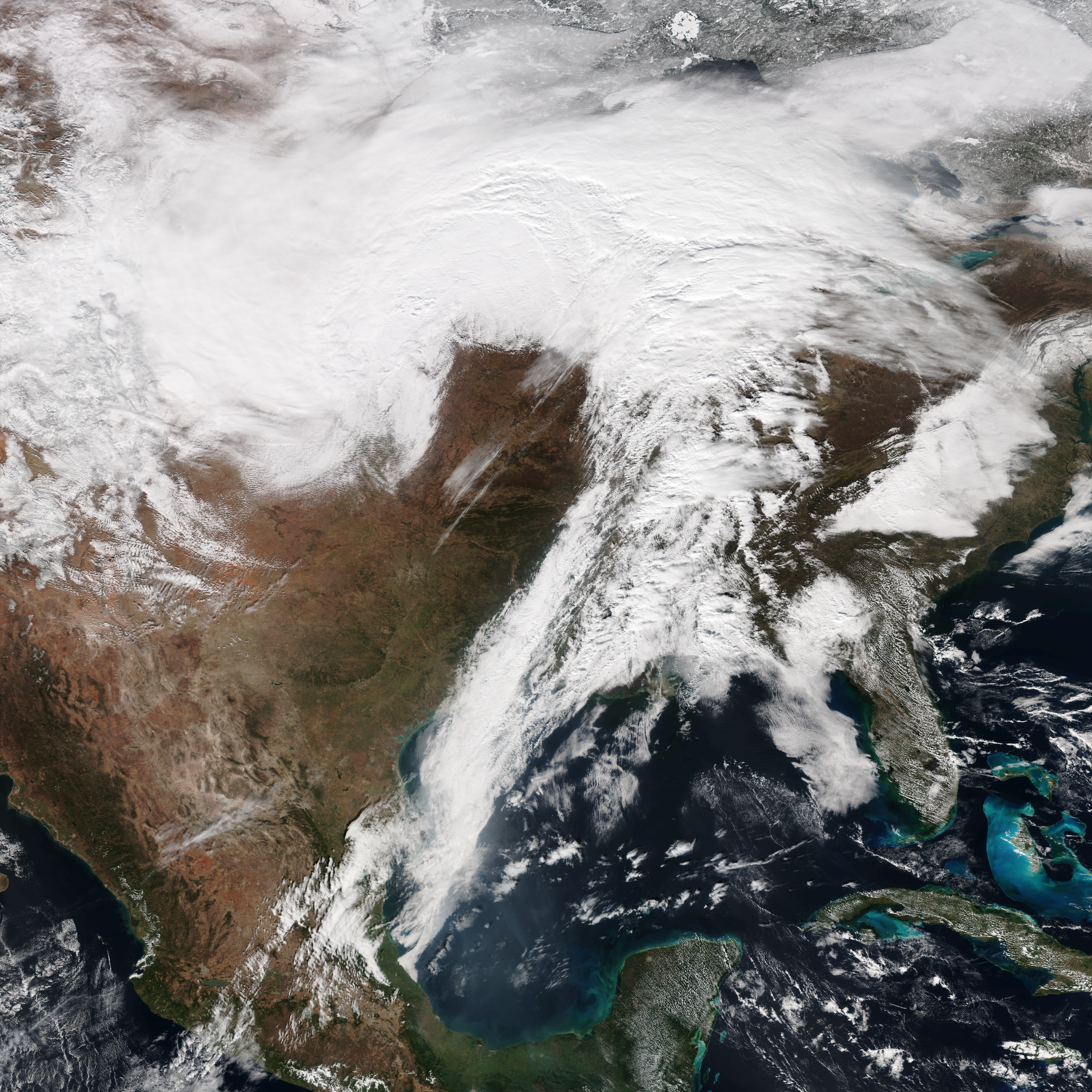 Satellite image of a winter storm moving across the United States on February 2, 2016.